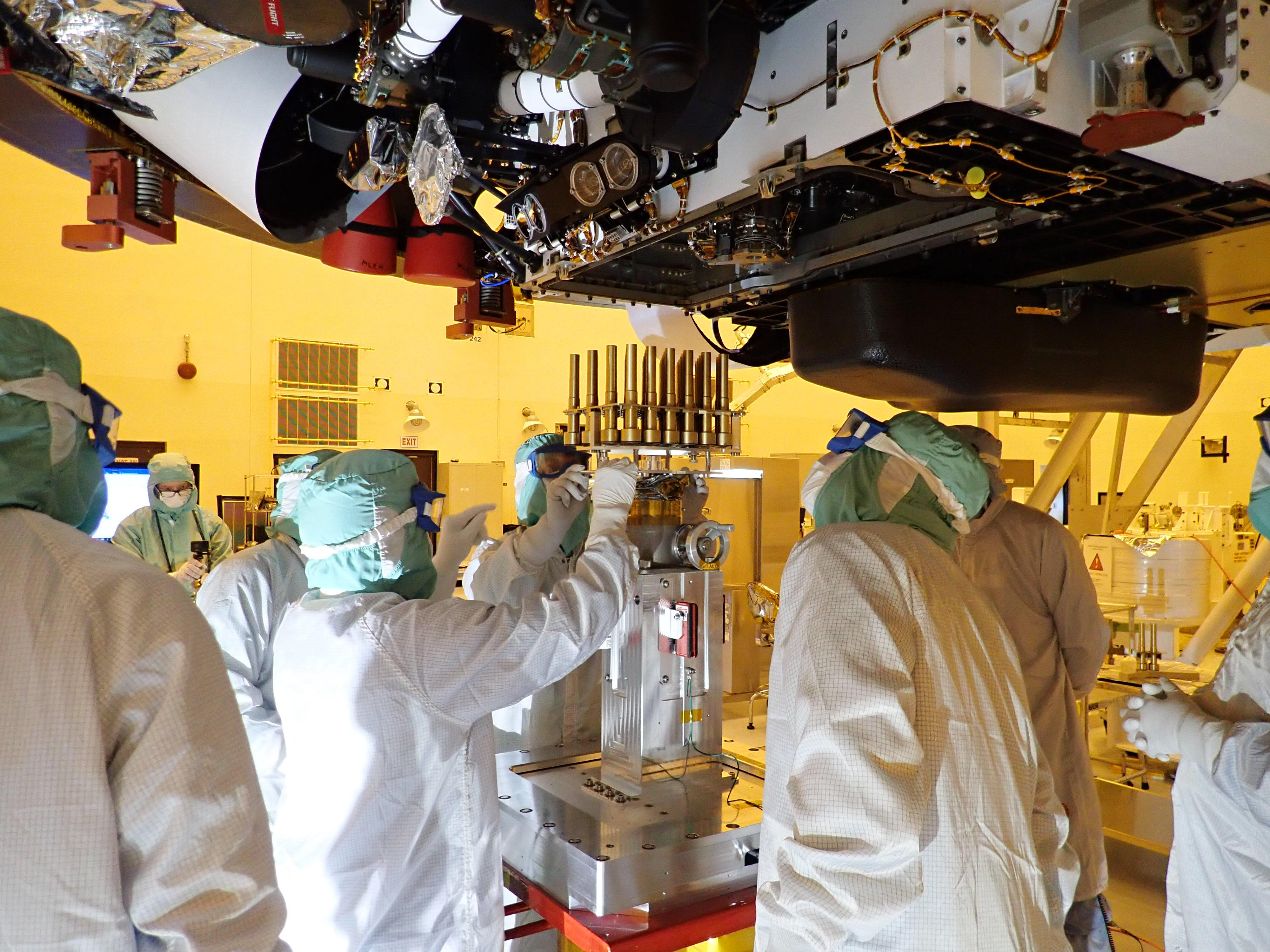 PIA23919: Tubes for Mars Engineers and technicians working on the Mars 2020 Perseverance team insert 39 sample tubes into the belly of the rover. Each tube is sheathed in a gold-colored cylindrical enclosure to protect it from contamination. Perseverance rover will carry 43 sample tubes to Mars' Jezero Crater. The image was taken at NASA's Kennedy Space Center in Florida on May 20, 2020. For more information about the mission, go to